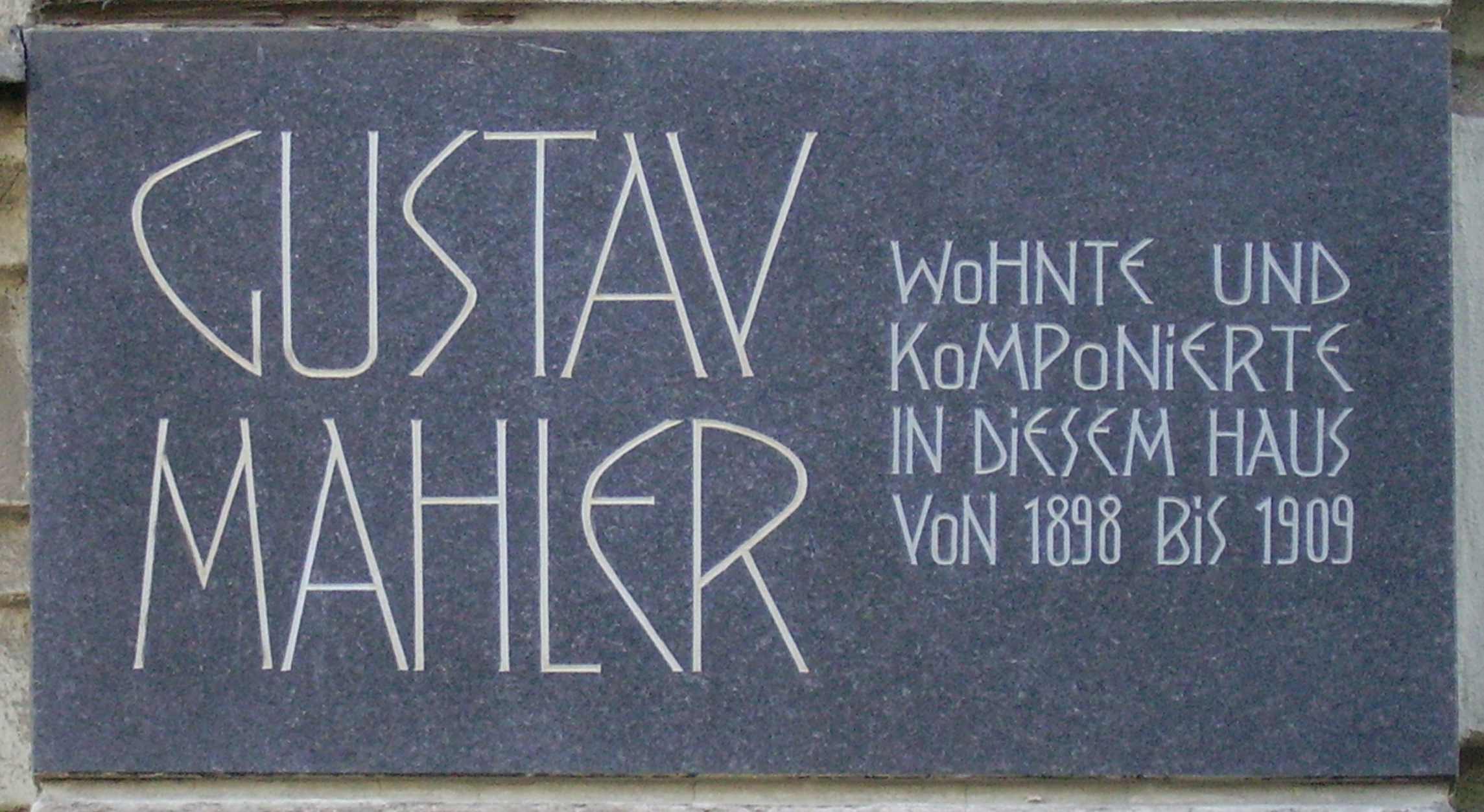 Gustav Mahler, memorial plaque at his residence in Vienna, Auenbruggergasse 2.